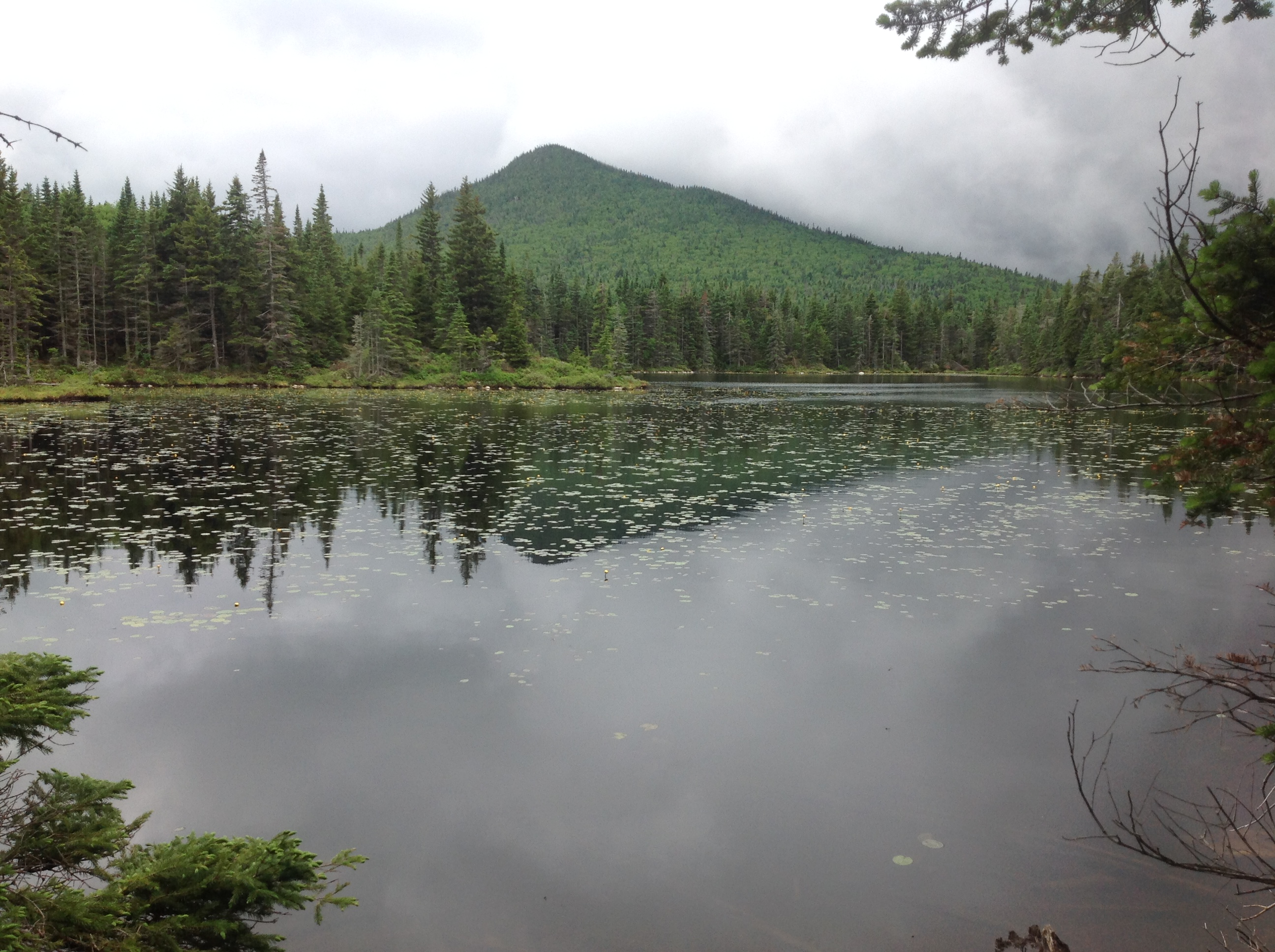 Unknown Pond, Kilkenny, N.H. (My own photo, I release to the public)